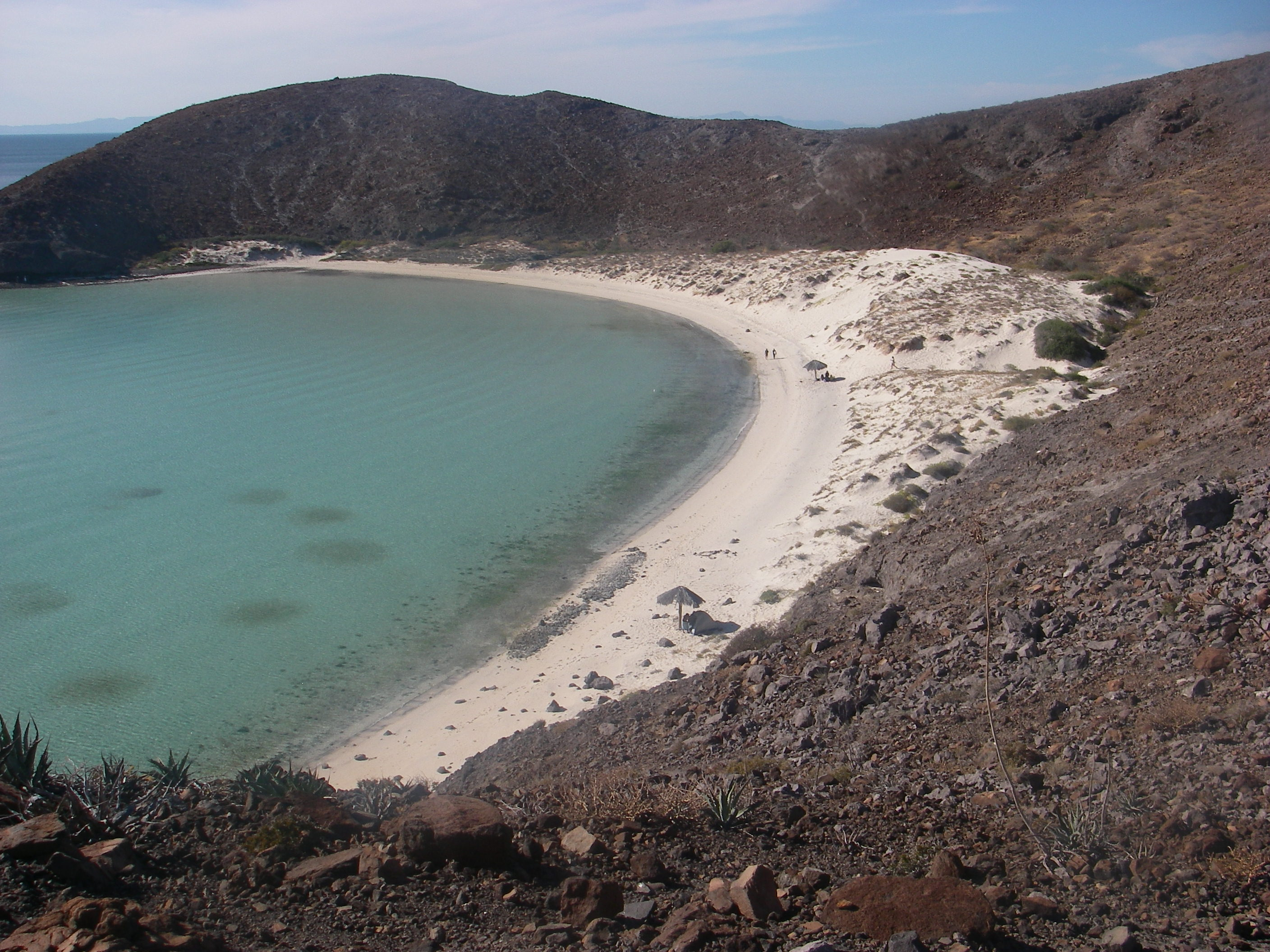 Balandra beach #2